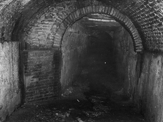 Tuneles de San German. Vaulted brick storm sewer system. Calle Esperanza and Calle Ferrocarril San German, Puerto Rico